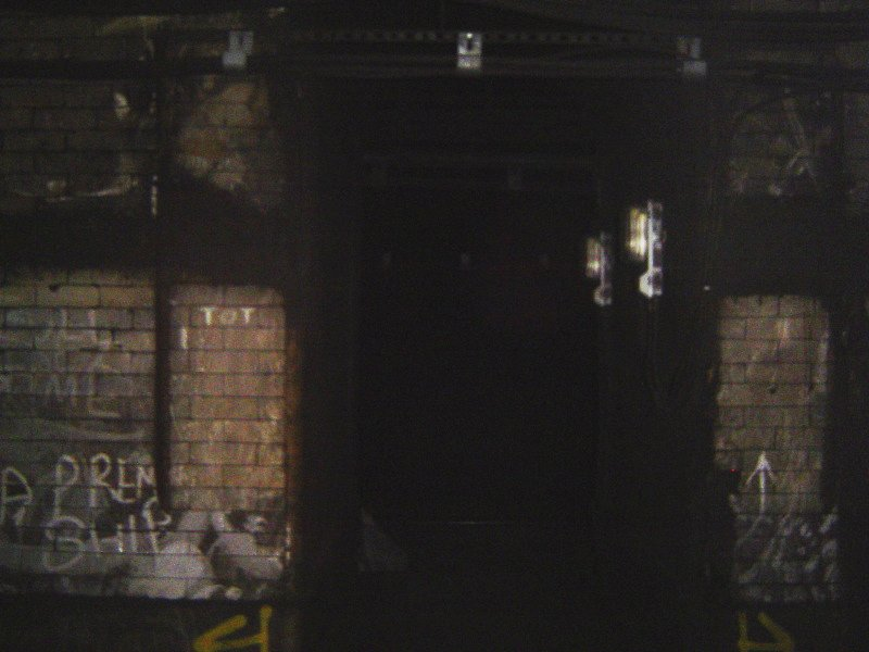 The disused British Museum tube station on the Central Line